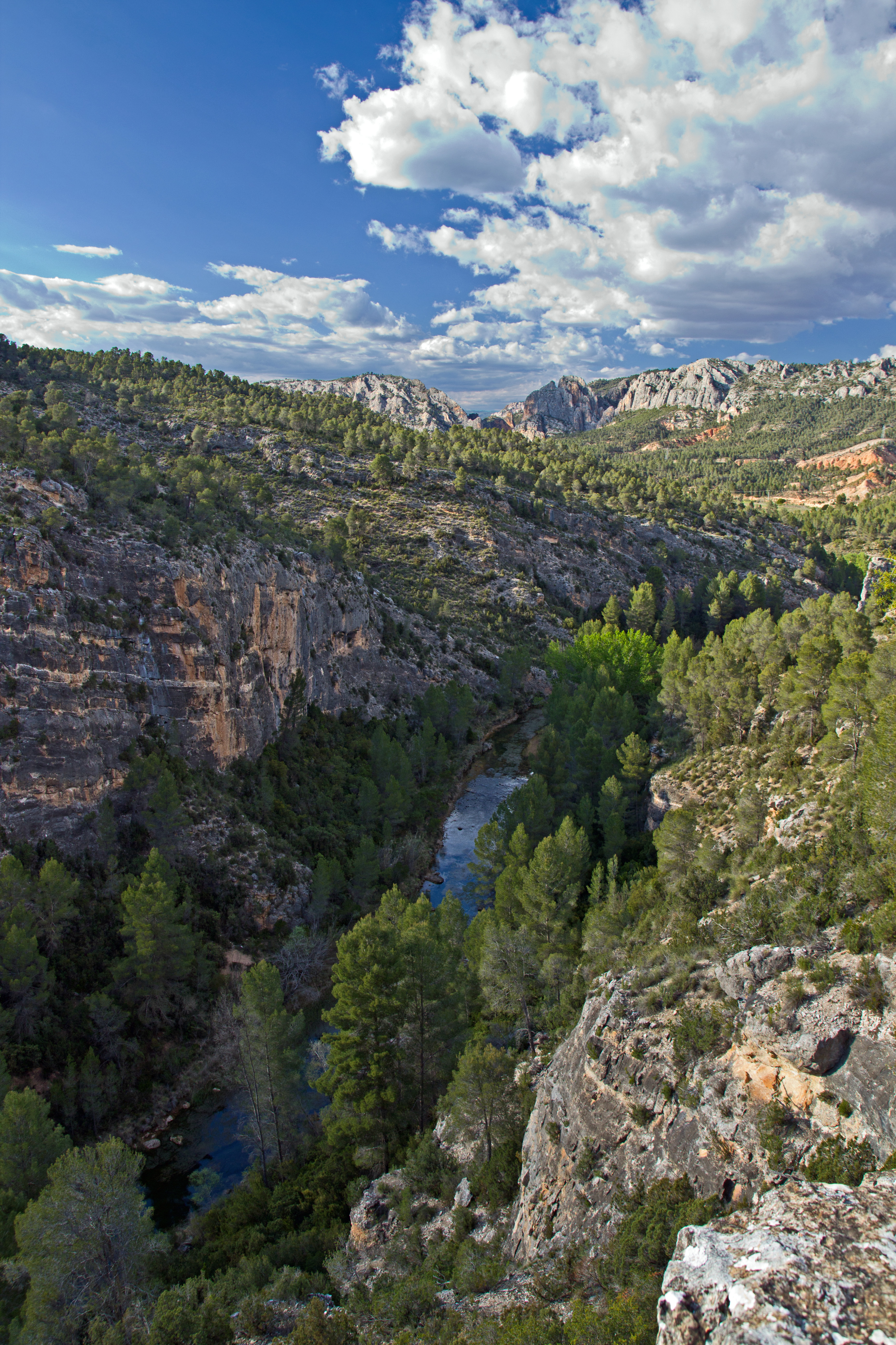 HOCES DEL CABRIEL 04 This is a photography of a Special Area of Conservation in Spain with the ID: ES4230013. Natura2000 entry, EEA entry